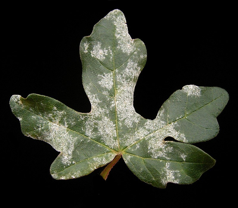 Acer campestre suffering from mildew